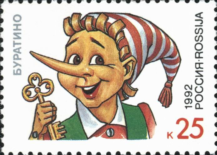 A Russia stamp, Buratino - is the main character of the book The Gold Key, or Adventures of Buratino by Aleksey Nikolayevich Tolstoy.